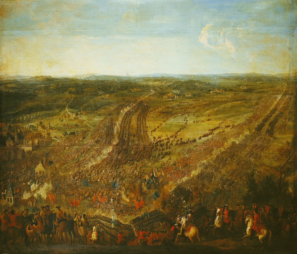 The battle of Fleurus (1690). Victory over the Dutch by Francois-Henri de Montmorency (1628-95)